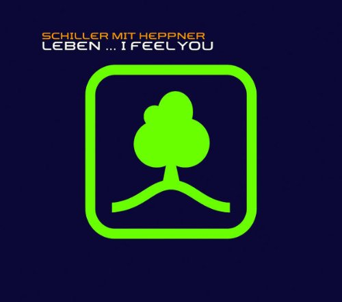 „Leben … I Feel You“ alternative Maxi-Single-Cover by Schiller mit Heppner.